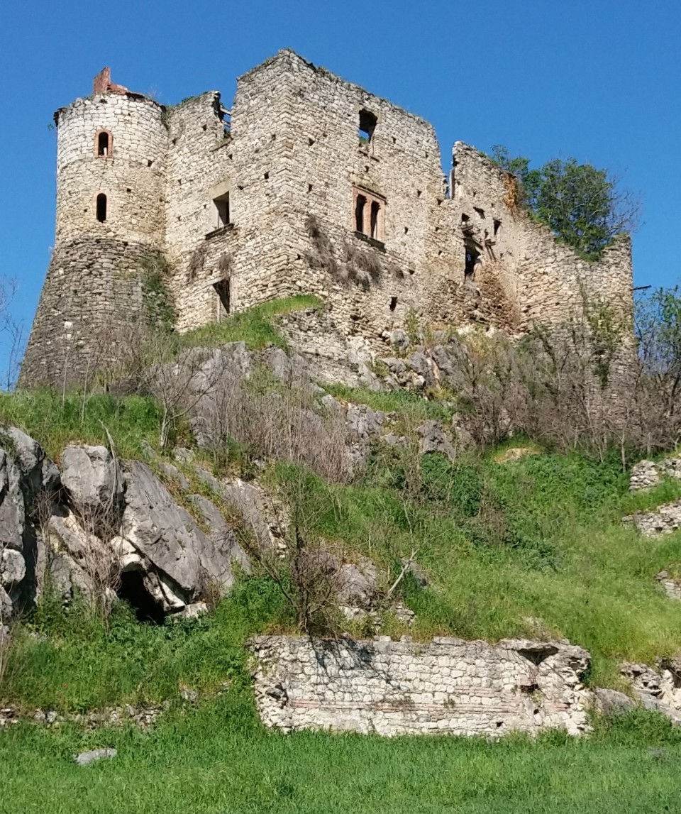 The castle of Melito Irpino, Italy